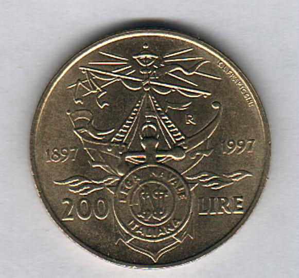 200 lire coin of 1997, commemorating the naval league (1897).